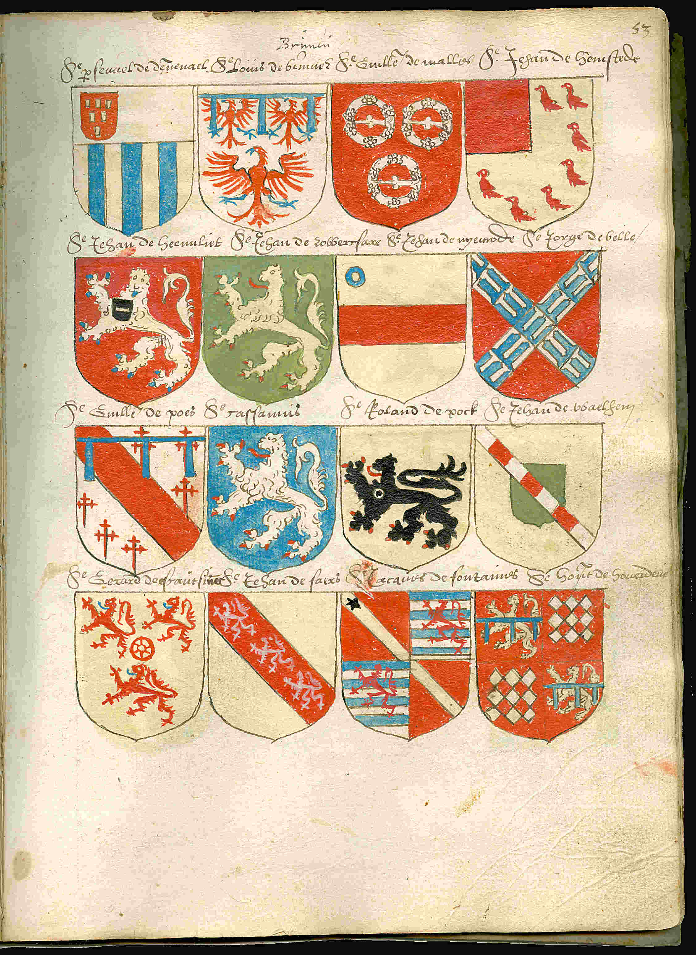 Page 53 from a copy of the Beyeren armorial / Wapenboek Beyeren from ca. 1600. The original Beyeren armorial from 1405 can be viewed at the website of the KB